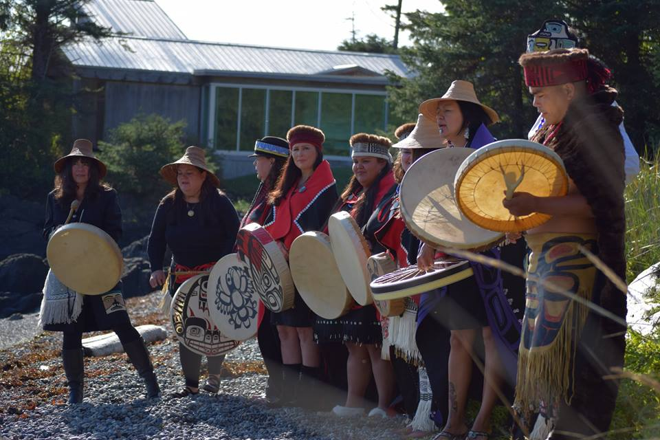 Haida drummers and singers greet guests on the shores of Ḵay Llnagaay, a thousands-of-years-old village in Haida Gwaii.